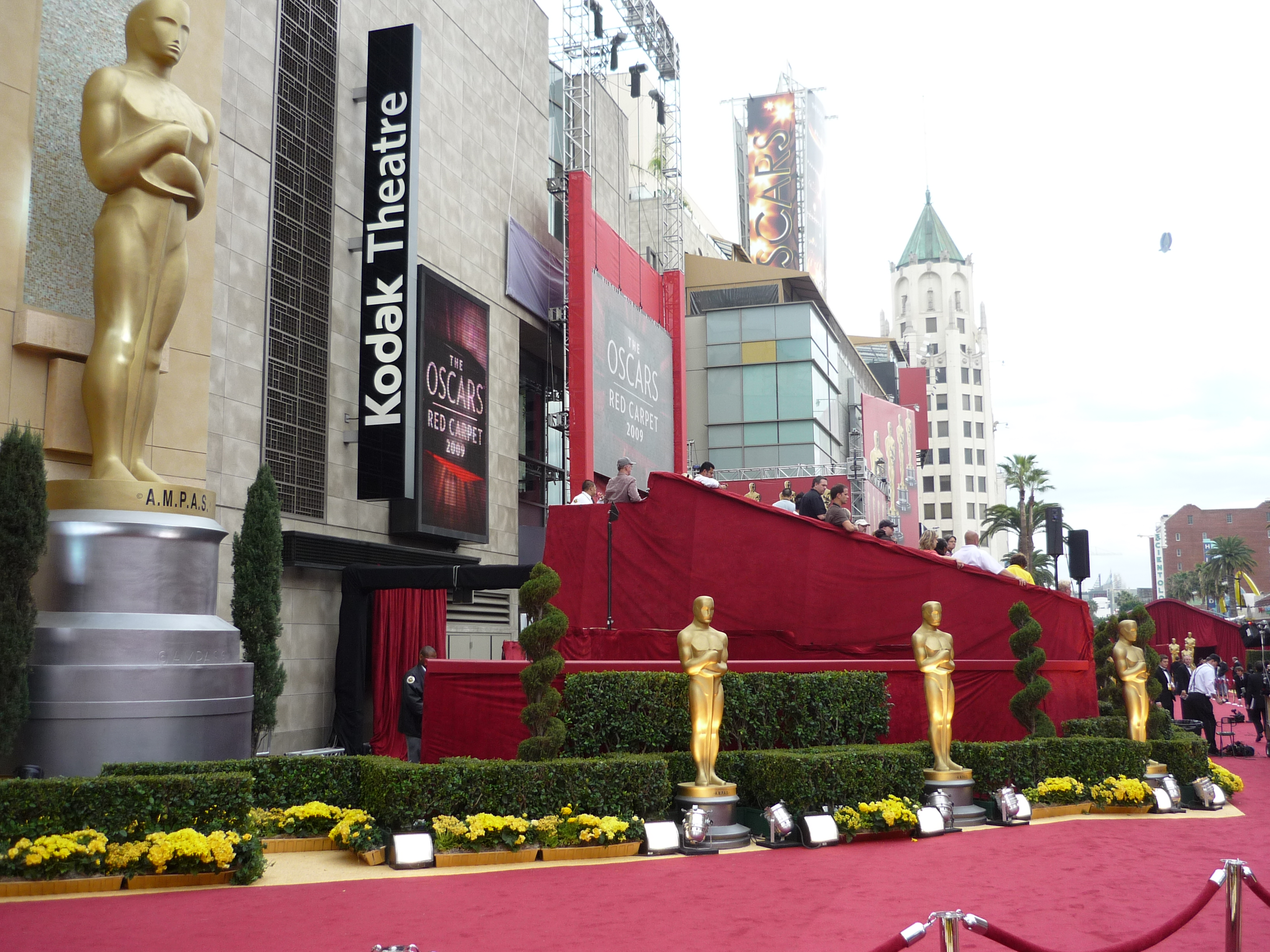 Red carpet at 81st Annual Academy Awards in Kodak Theatre, Los Angeles.